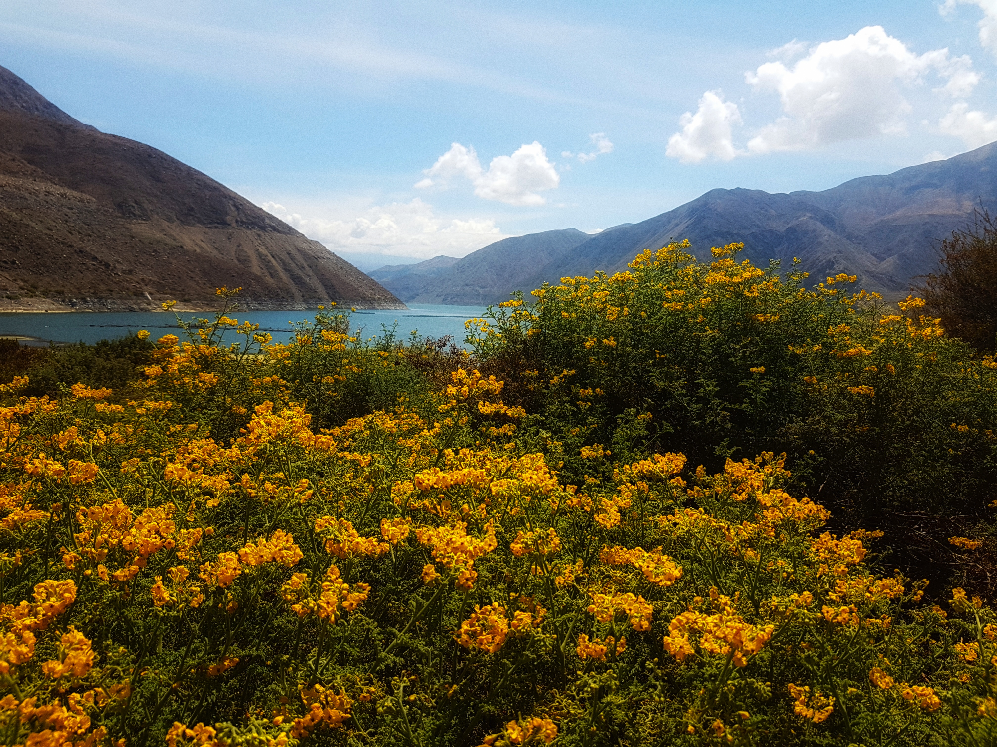 Flora in the Aricota Lagoon